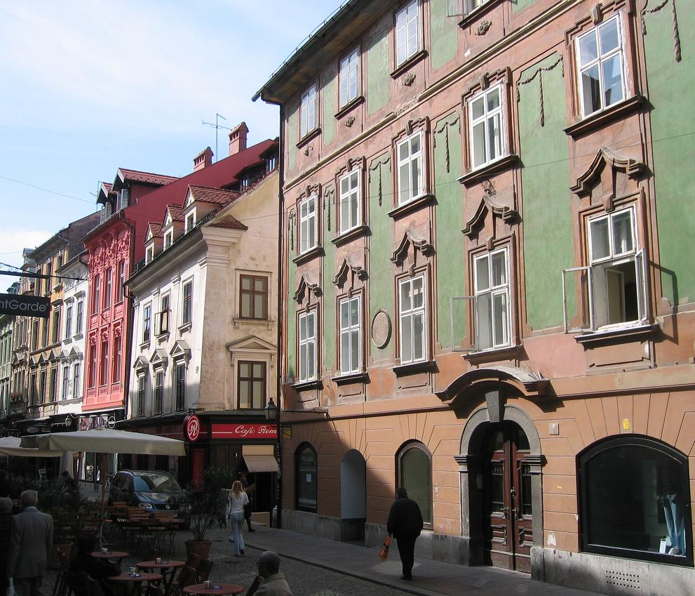 Stari trg, Ljubljana (the house in green color is the purported birthplace of Johann Weikhard von Valvasor - Old Square No. 4 House. It was built in 1637-38, with its façade completed at the end of the 18th century. It is followed by numbers 6, 8, 10, 12.[1] architect No. 4, 6: Abondio de Donin (17th century)[2][3] No. 10: Carniolan Construction Company (Kranjska stavbna družba; end of the 19th century - after the 1895 earthquake).[4] No. 8, 12: Filip Supančič (1850-1928)[5][6] photo: Ziga 14:24, 25 April 2006 (UTC)